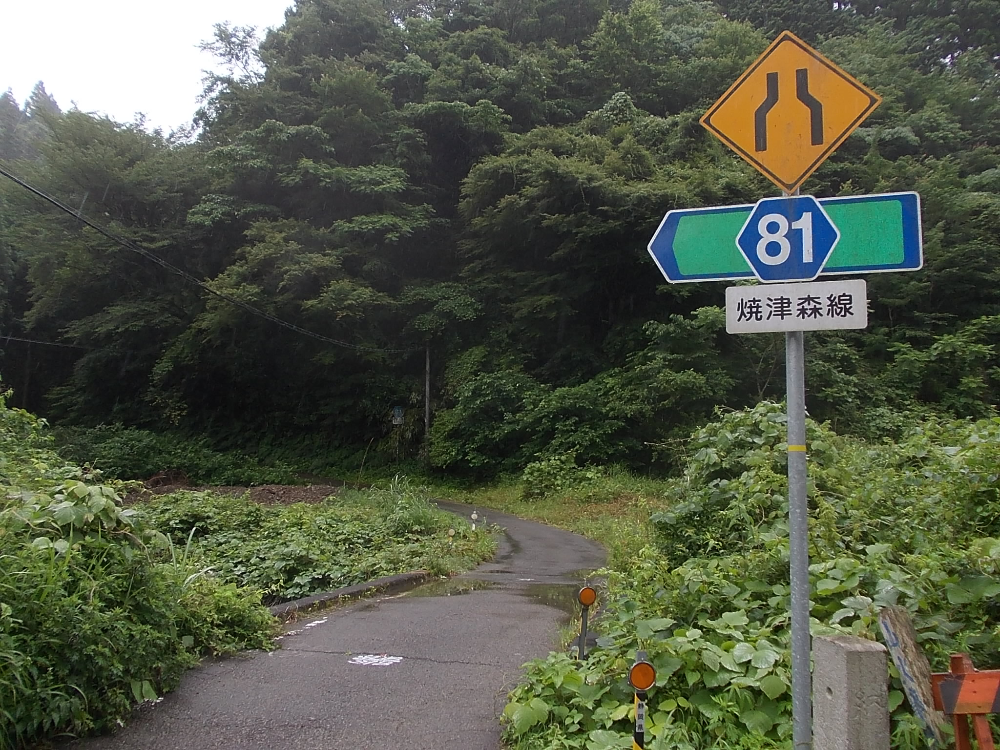 Shizuoka prefectural Route 81, Shimada, Shizuoka